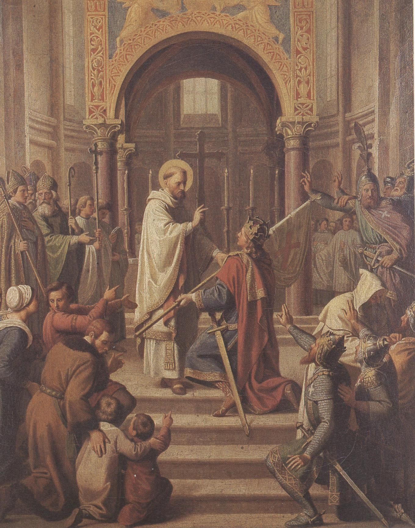 Fresco from Speyer cathedral 1930